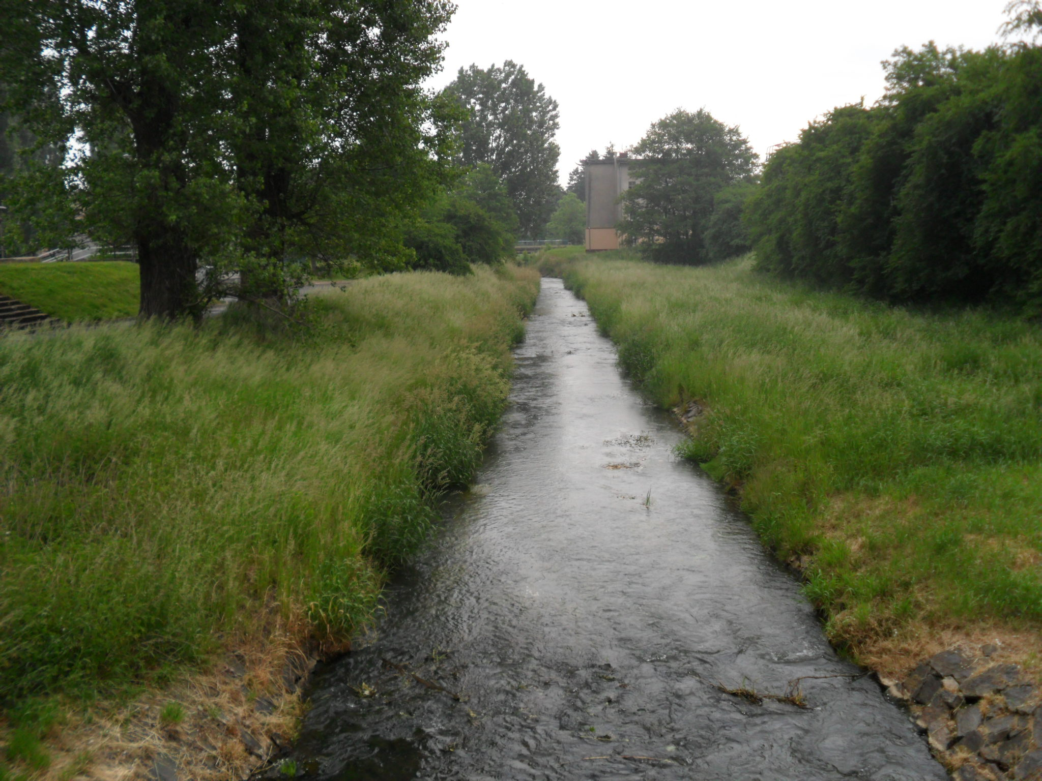 Oława (river) in Strzelin